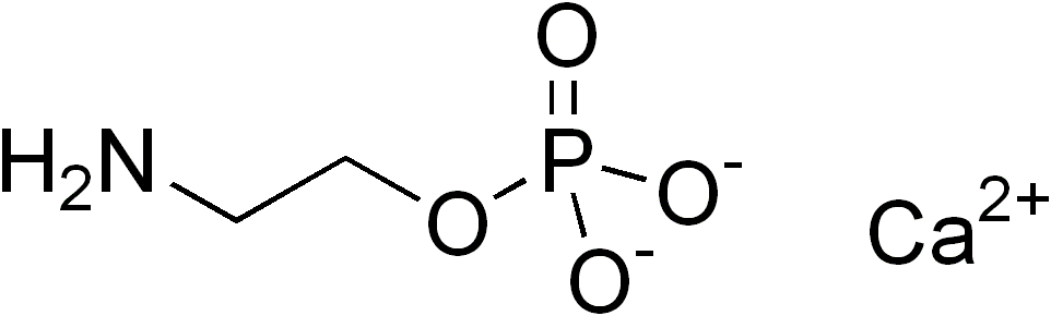 chemical structure of calcium 2-amino ethyl phosphoric acid (Ca-2-AEP)